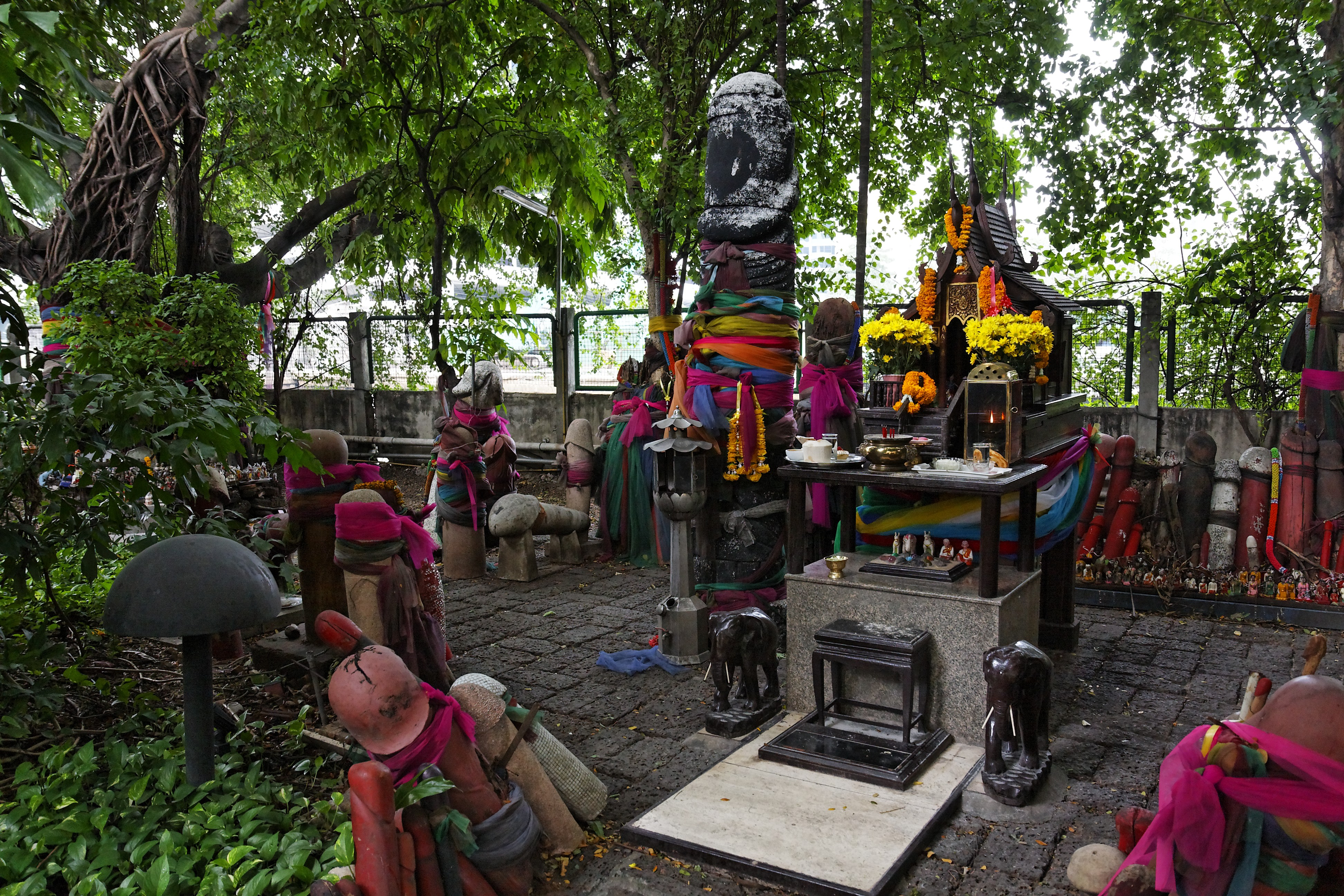 Chao Mae Tuptim shrine, Bangkok, Thailand